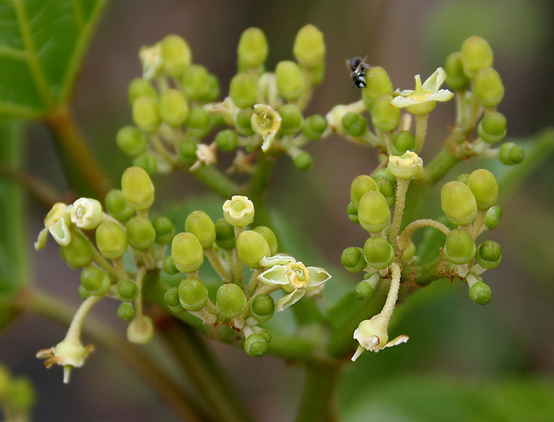 Woodrow's Grape Tree • Marathi: गिरणूळ girnul Cissus woodrowii in Keesara, Rangareddy district, Andhra Pradesh, India.